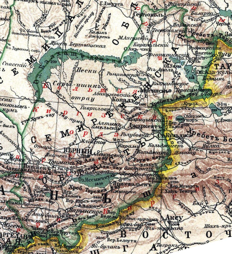 Map of Semirechye Oblast (Russian Empire)